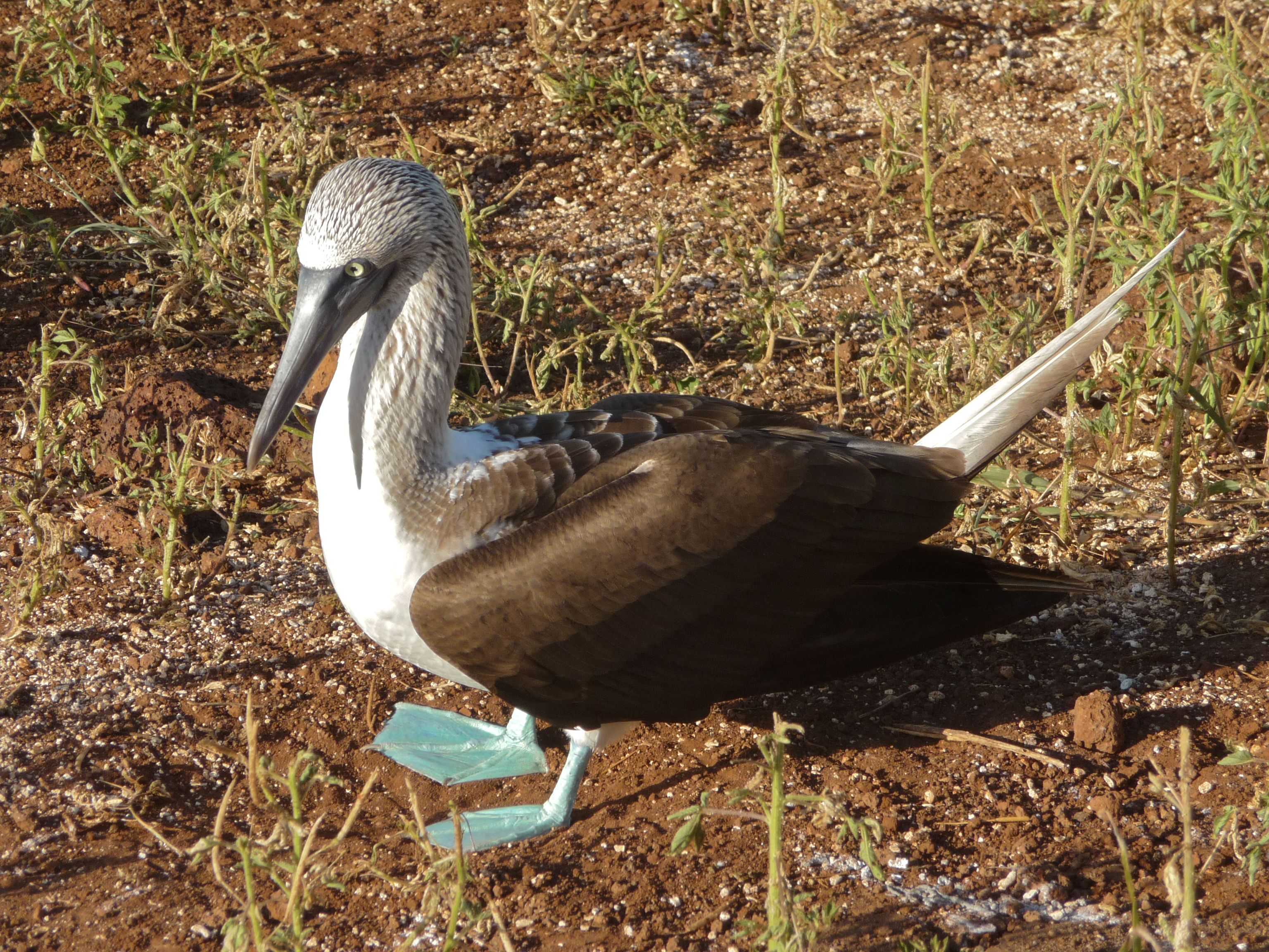 Galapagos Islands